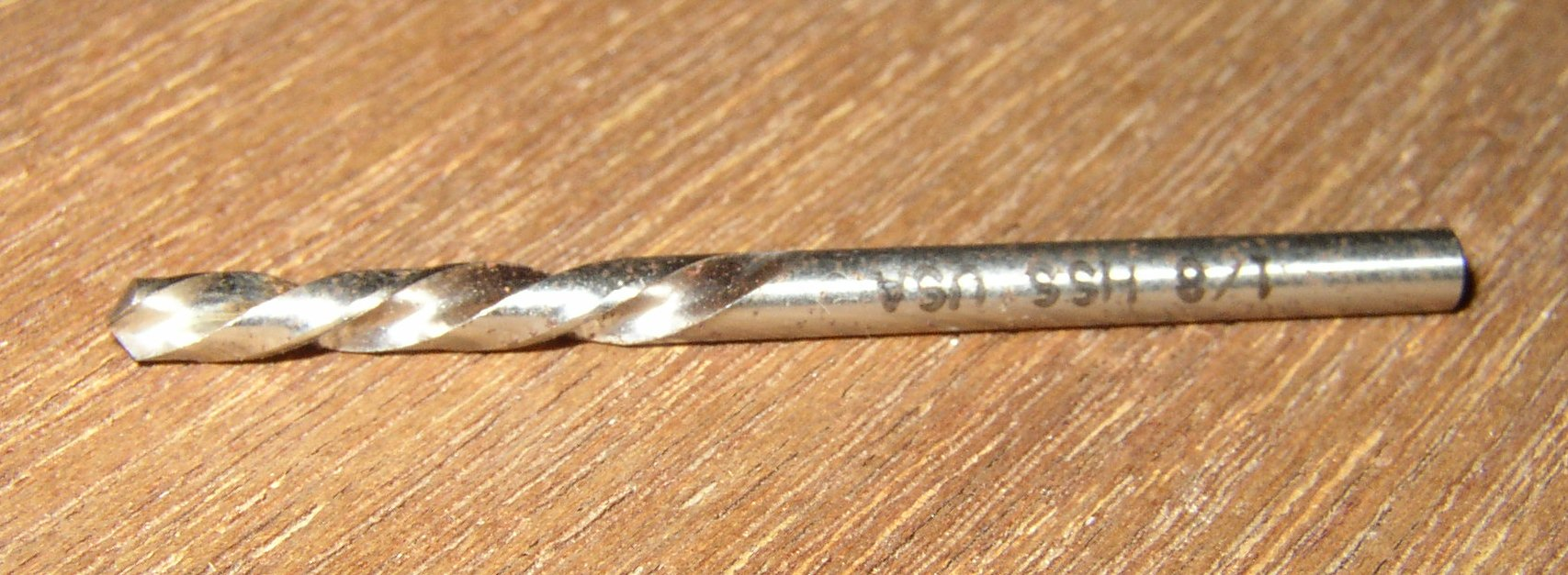 A left-hand drill bit. I took this photo myself, of my drill bits, and release it under the GFDL.